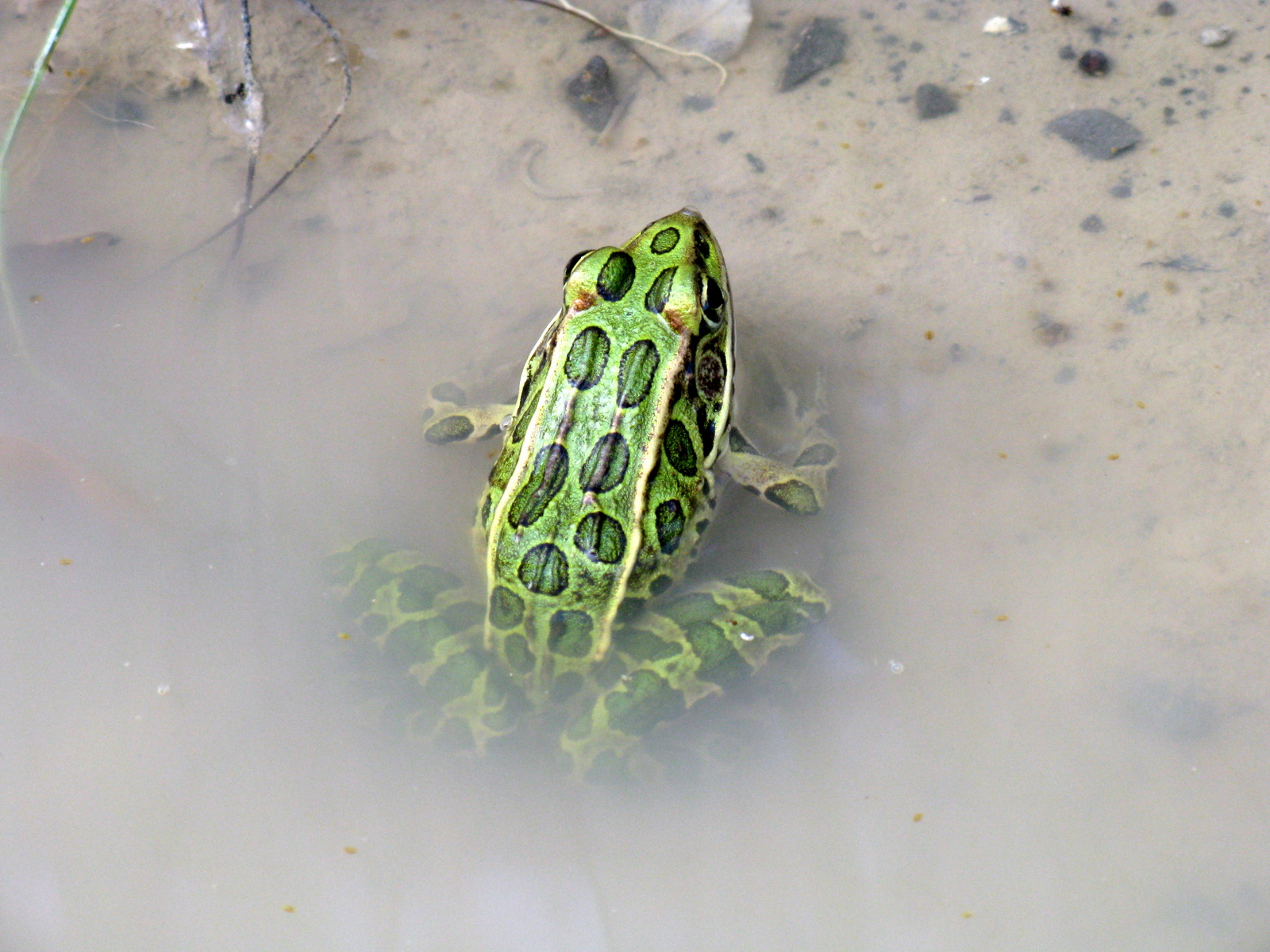 Northern leopard frog (Lithobates pipiens) near Welland Canal in Ontario, Canada